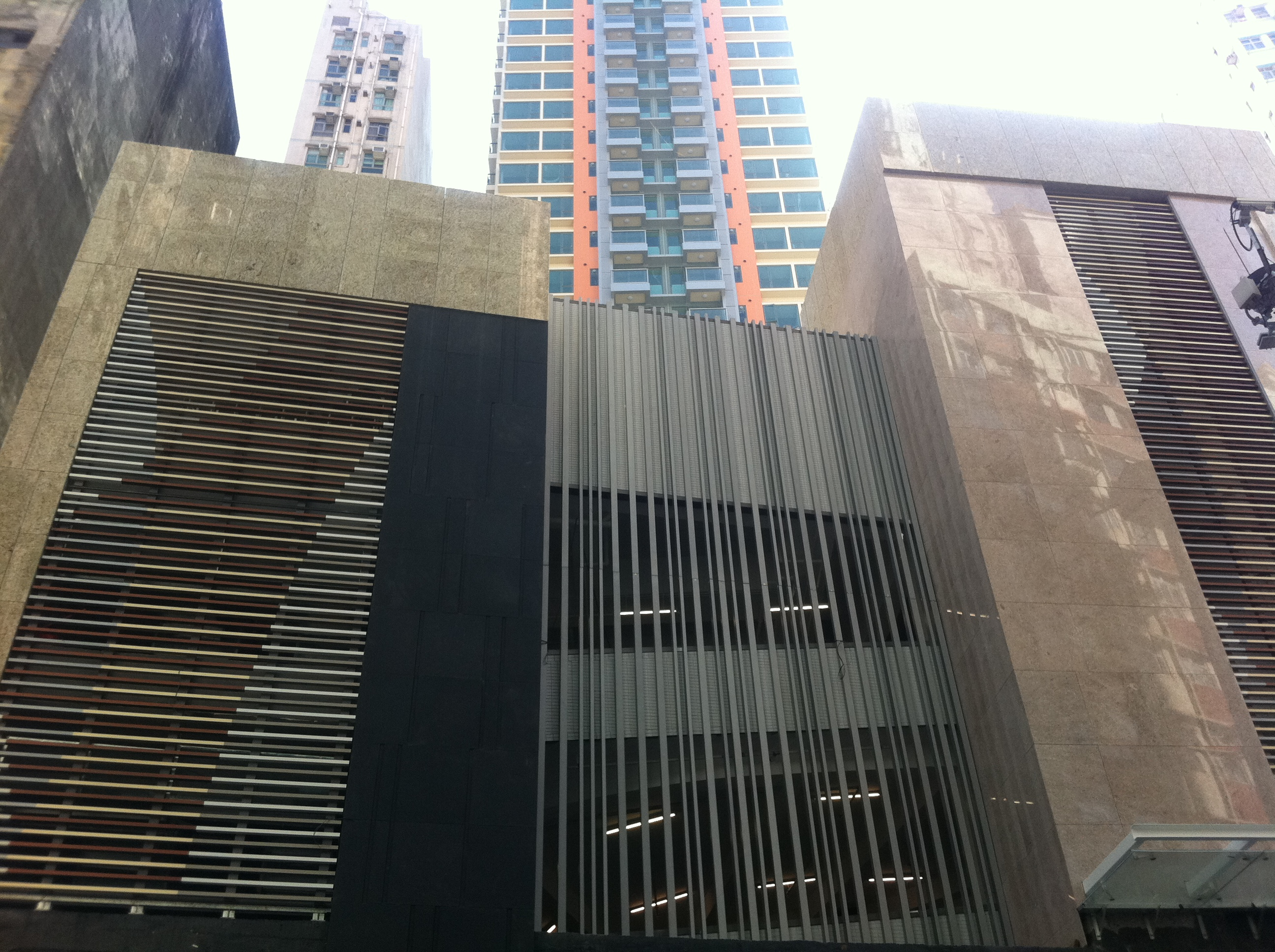 西環堅尼地城石山街9號 - 新世界發展寶雅山